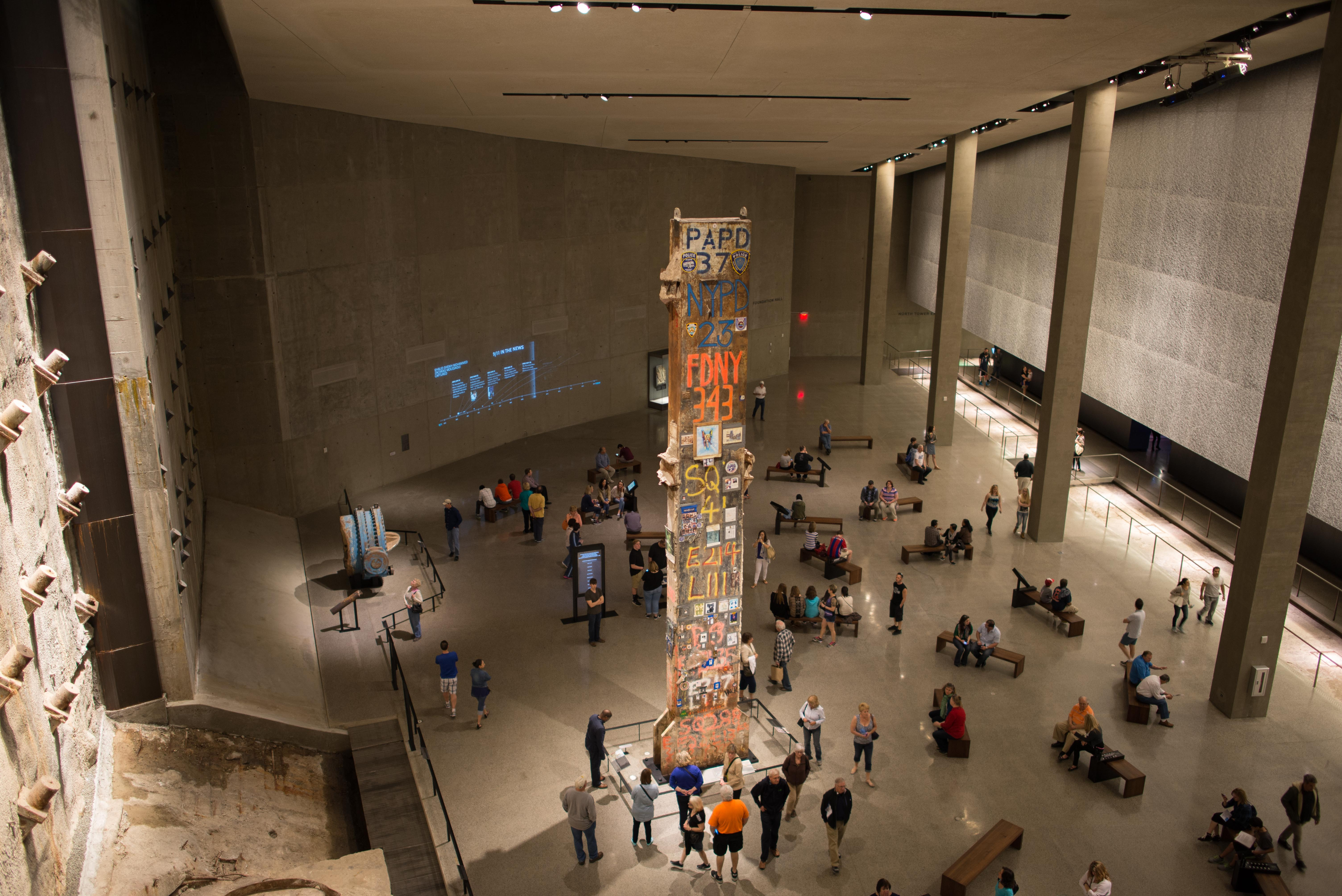 The main underground hall of the National September 11 Museum at the World Trade Center site in New York. At center is the last steel column ceremoniously removed from the WTC site, inscribed with the counts of emergency responder victims (and civilians on the back side). At left is part of the retaining wall "bathtub" circumscribing the site.